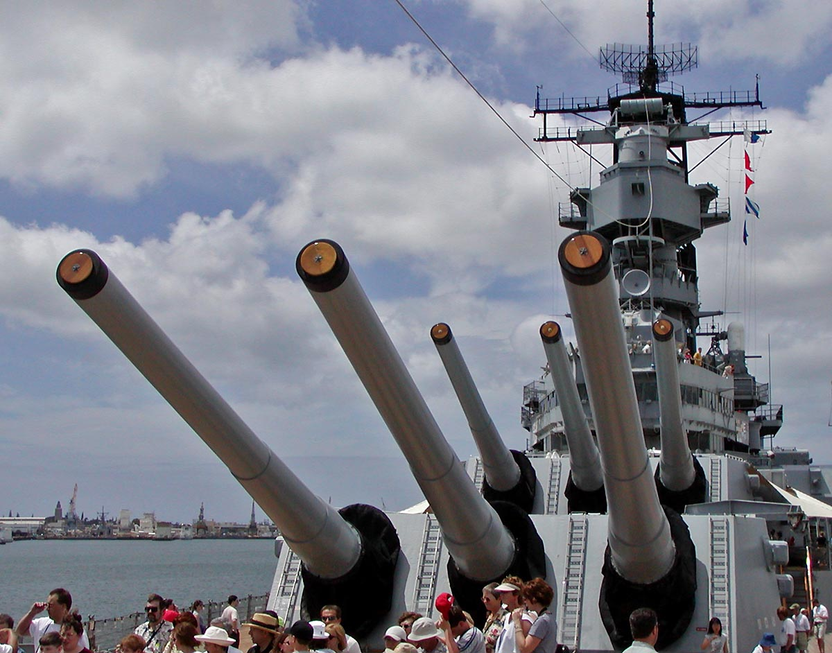 Photo of USS Missouri (BB-63) forward turrets